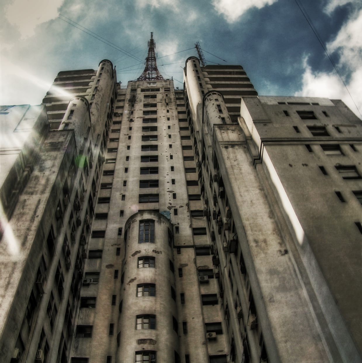 This building houses the Ministery of Health, the Ministry of Social Development, and TV transmission antennas.